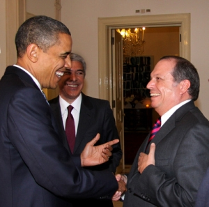 U.S. President Barack Obama meets with Azorean Regional President Carlos César during a visit to the Azores November 19 - 20, 2010.